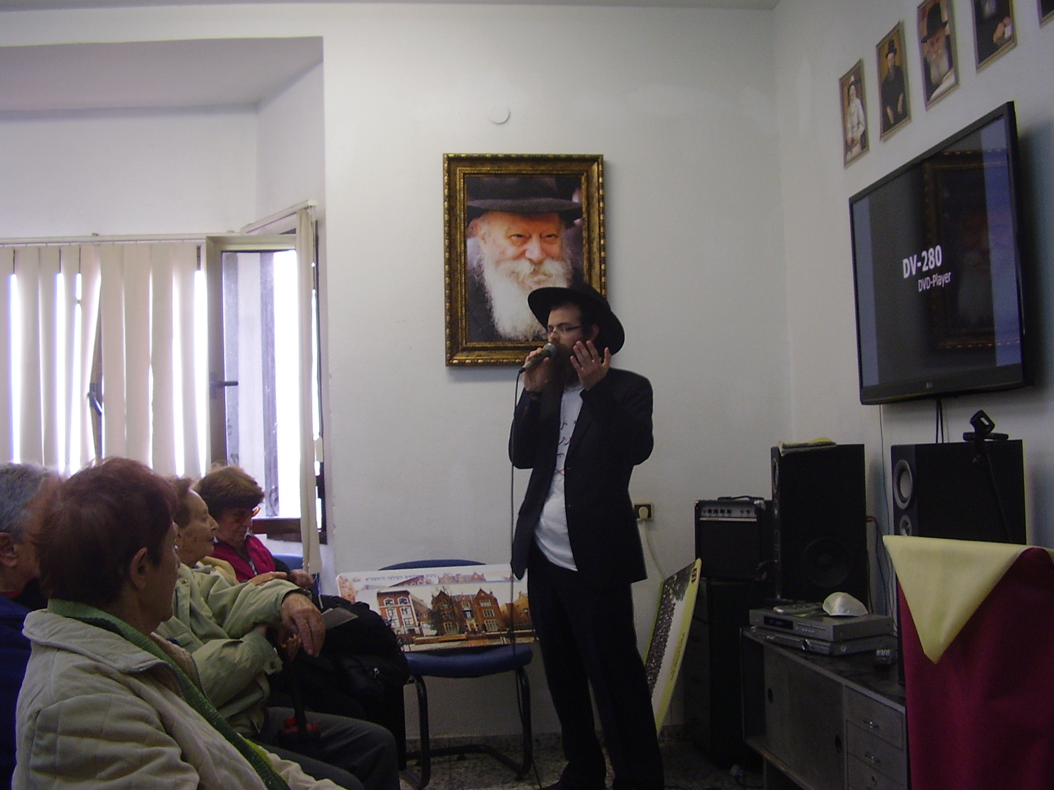 Rabbi in Kfar Habad talking to a tour group.